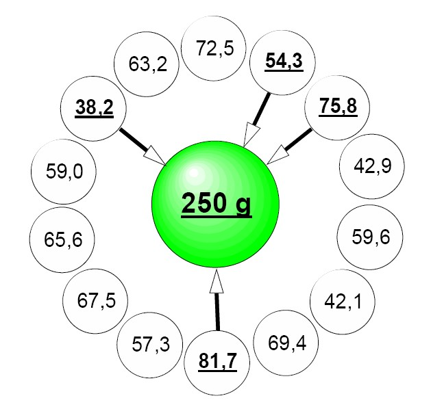 possible combination - multihead weigher